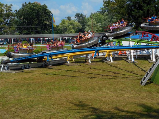 Tumble Bug